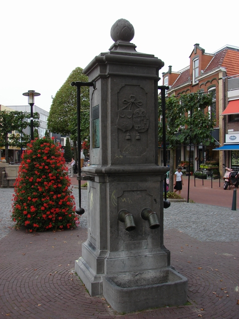 Historic village pump in town's centreNedersaksies: HILLEGOM_pompe.jpg